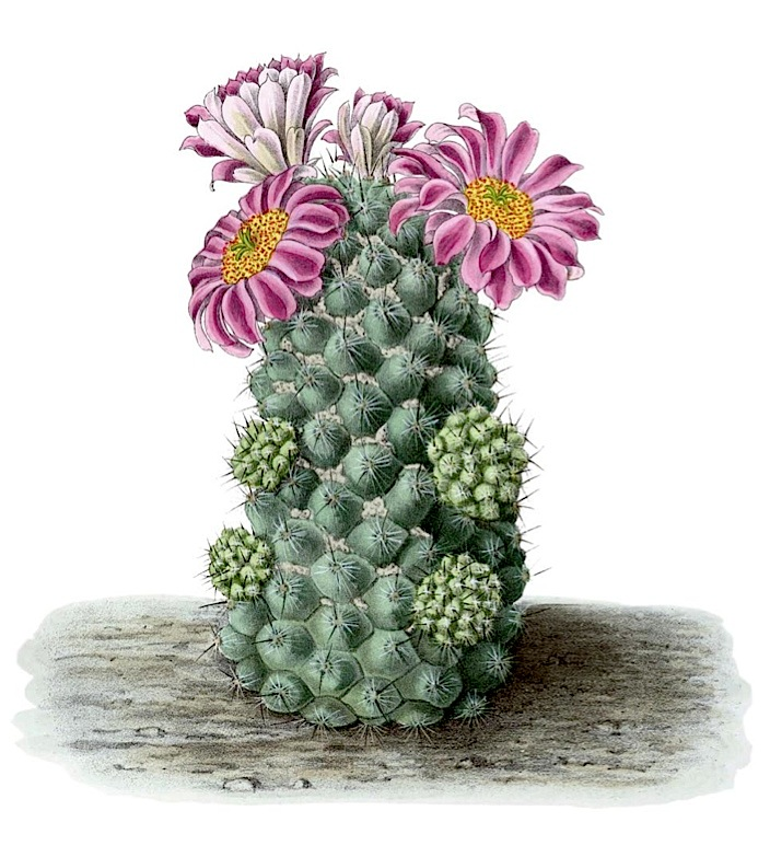 Neolloydia conoidea